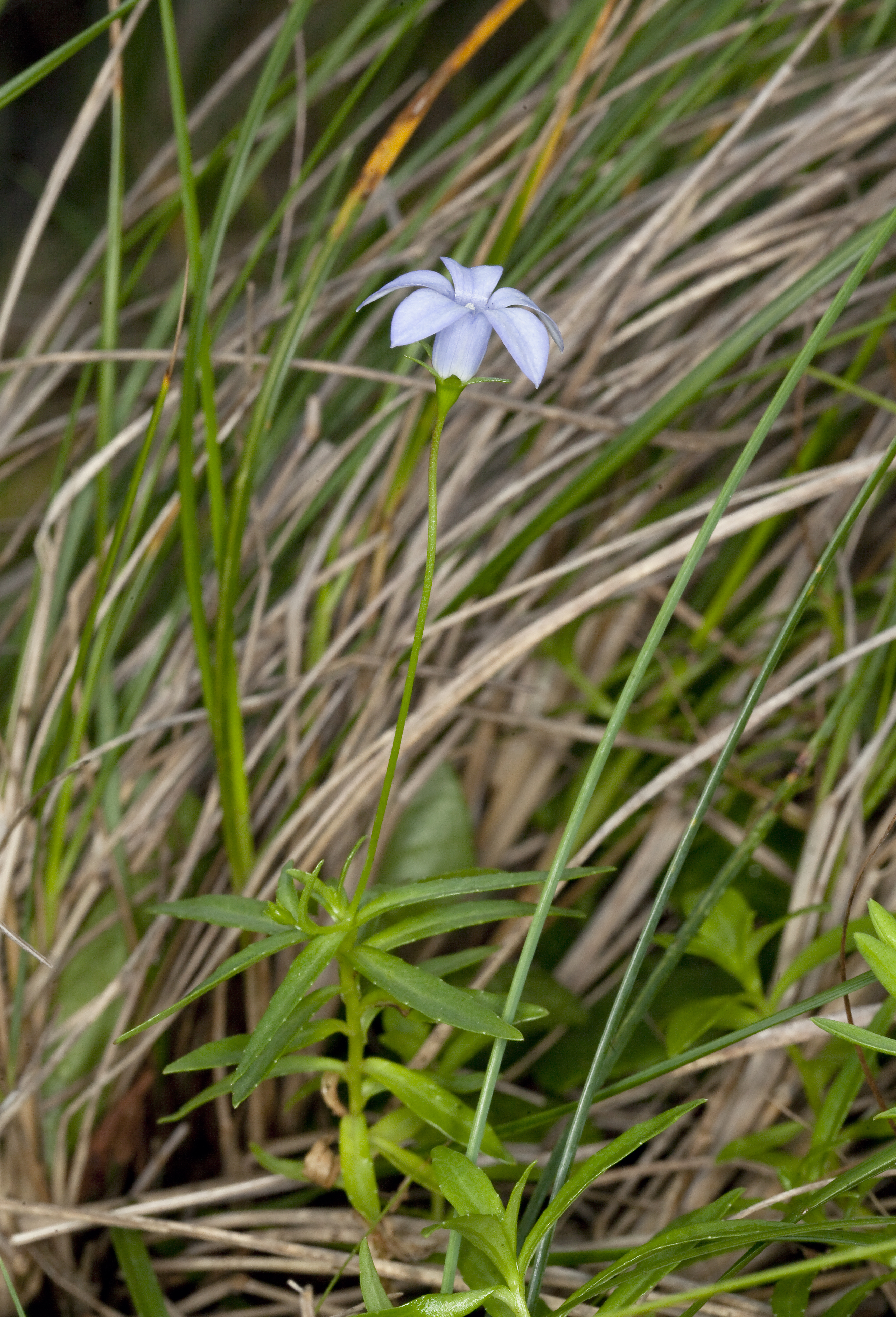 Wahlenbergia insulae-howei. On a more or less open east-facing rocky bank near Goat House Cave, Lord Howe Island. This Lord Howe endemic in the Campanulaceae is related to the more widespread W. gracilis, which is also native on Lord Howe.